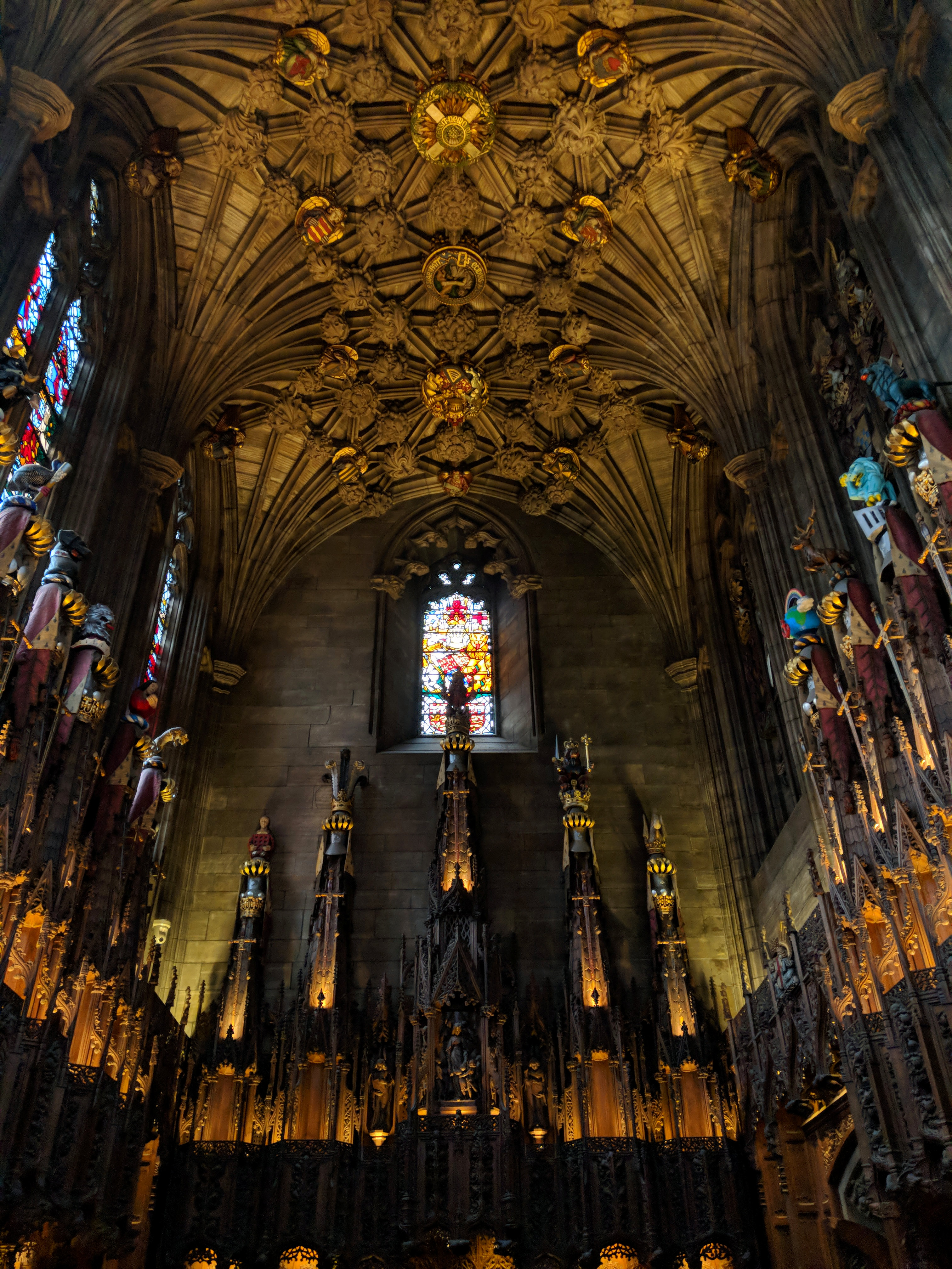 The Thistle Chapel at St Giles' Cathedral, High Street, Royal Mile, Edinburgh Wikidata has entry Q1547466 with data related to this item.